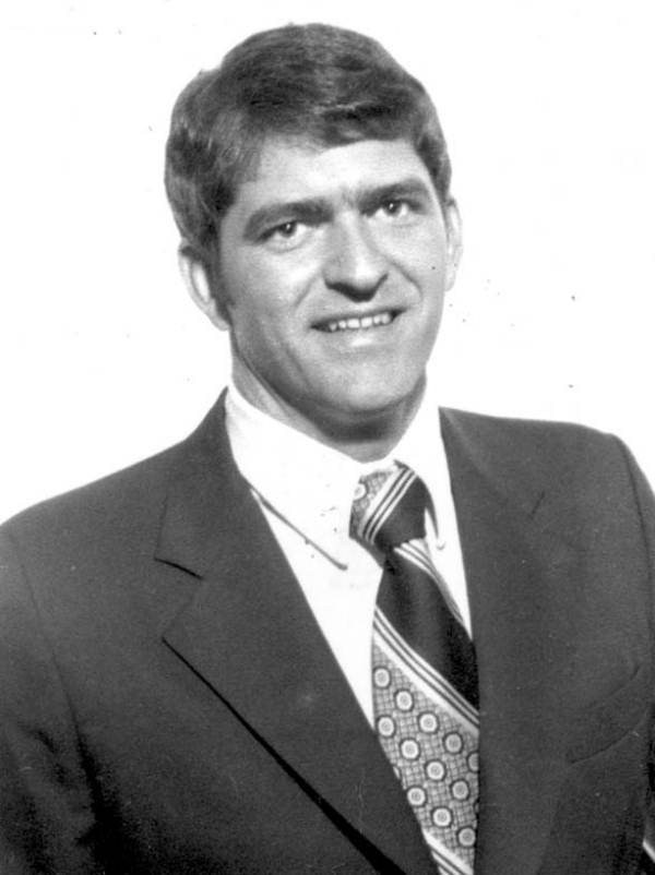 Portrait of Florida legislative representative Daniel Webster